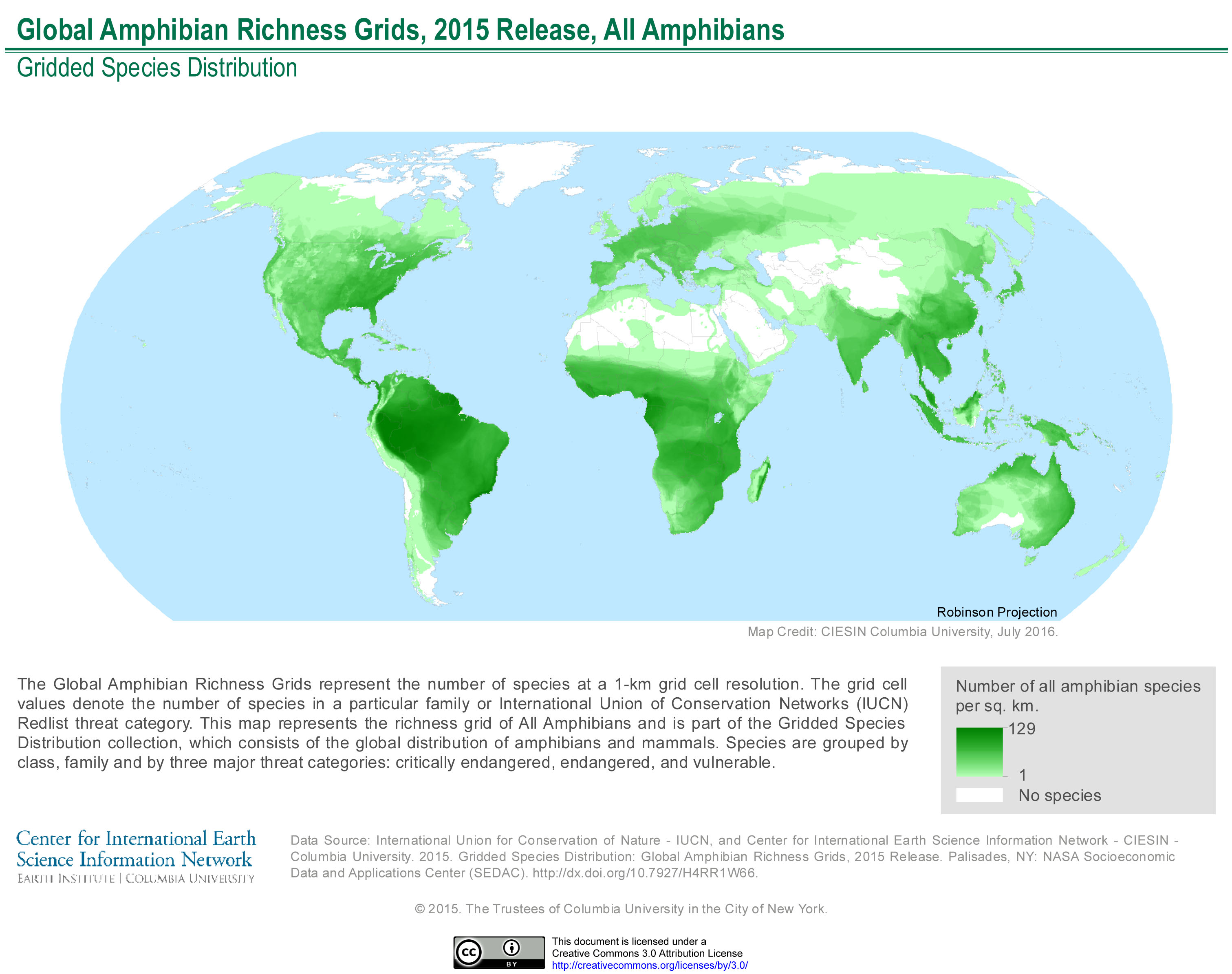 The Global Amphibian Richness Grids represent the number of species at a 1-km grid cell resolution. The grid cell values denote the number of species in a particular family or International Union of Conservation Networks (IUCN) Redlist threat category. This map represents the richness grid of All Amphibians and is part of the Gridded Species Distribution collection, which consists of the global distribution of amphibians and mammals. Species are grouped by class, family and by three major threat categories: critically endangered, endangered, and vulnerable. See more information at .